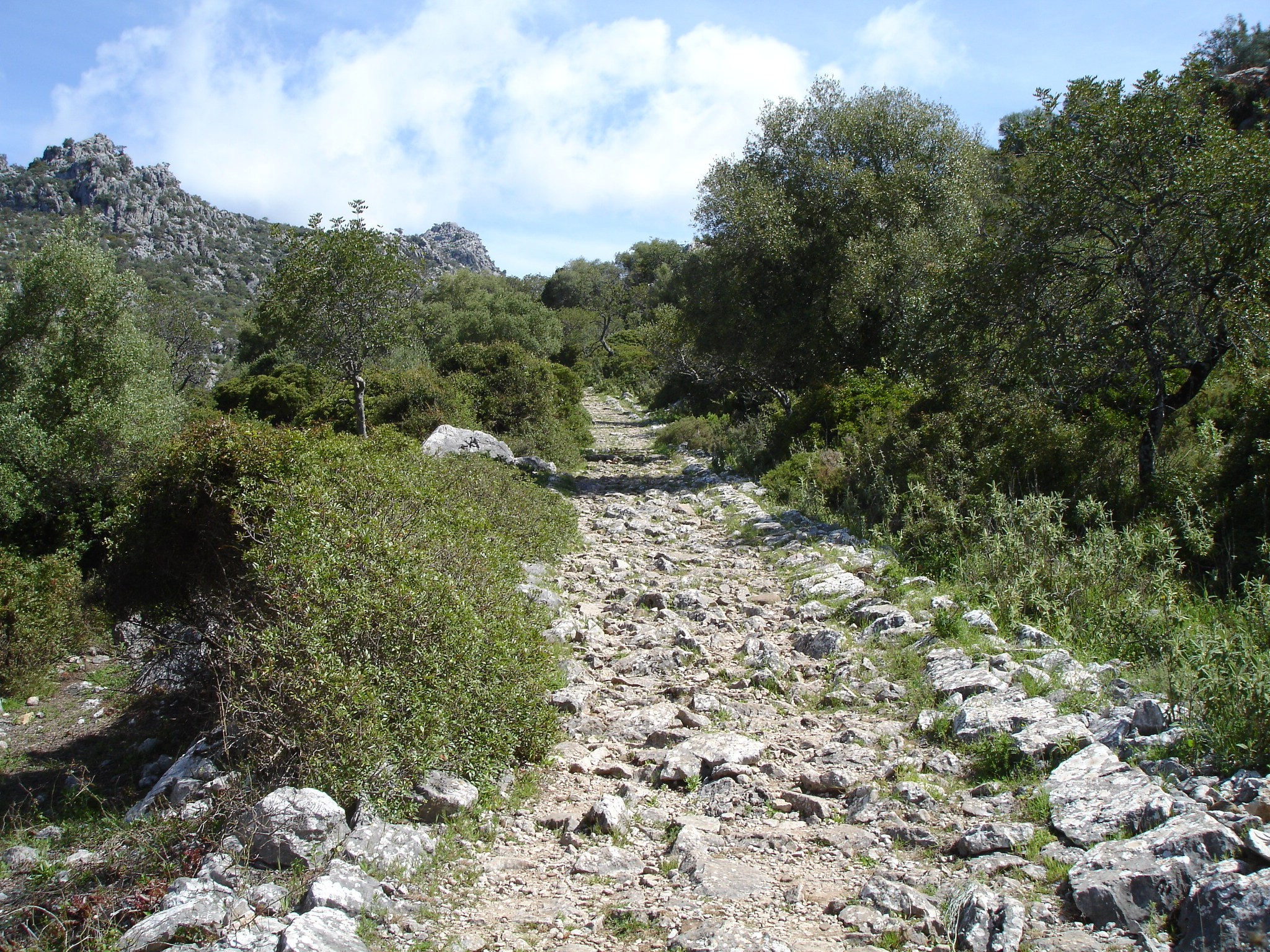 Roman path in Cadiz mountains, Spain.